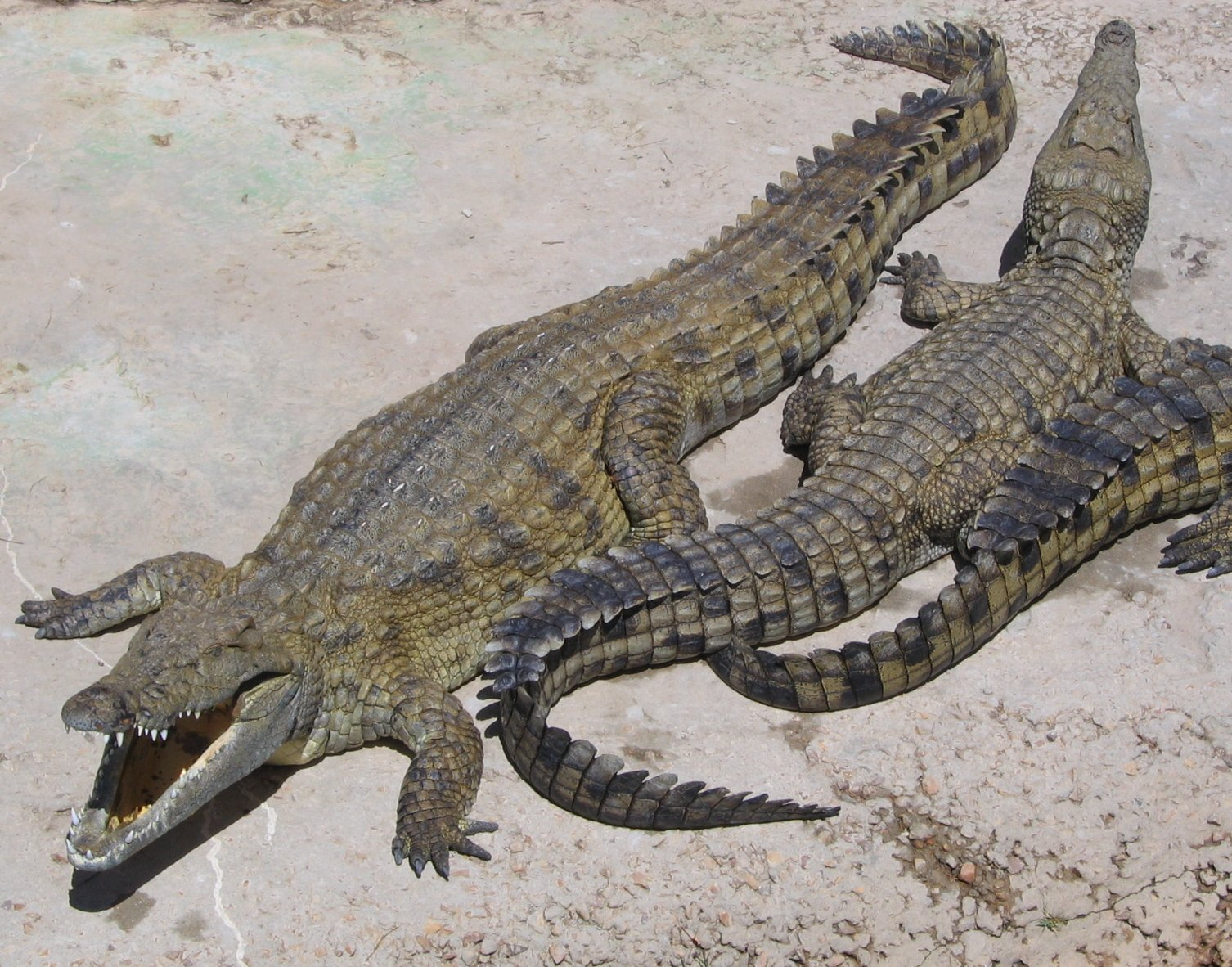 Nile crocodiles, taken at the Le Bonheur Crocodile Farm near Stellenbosch, South Africa